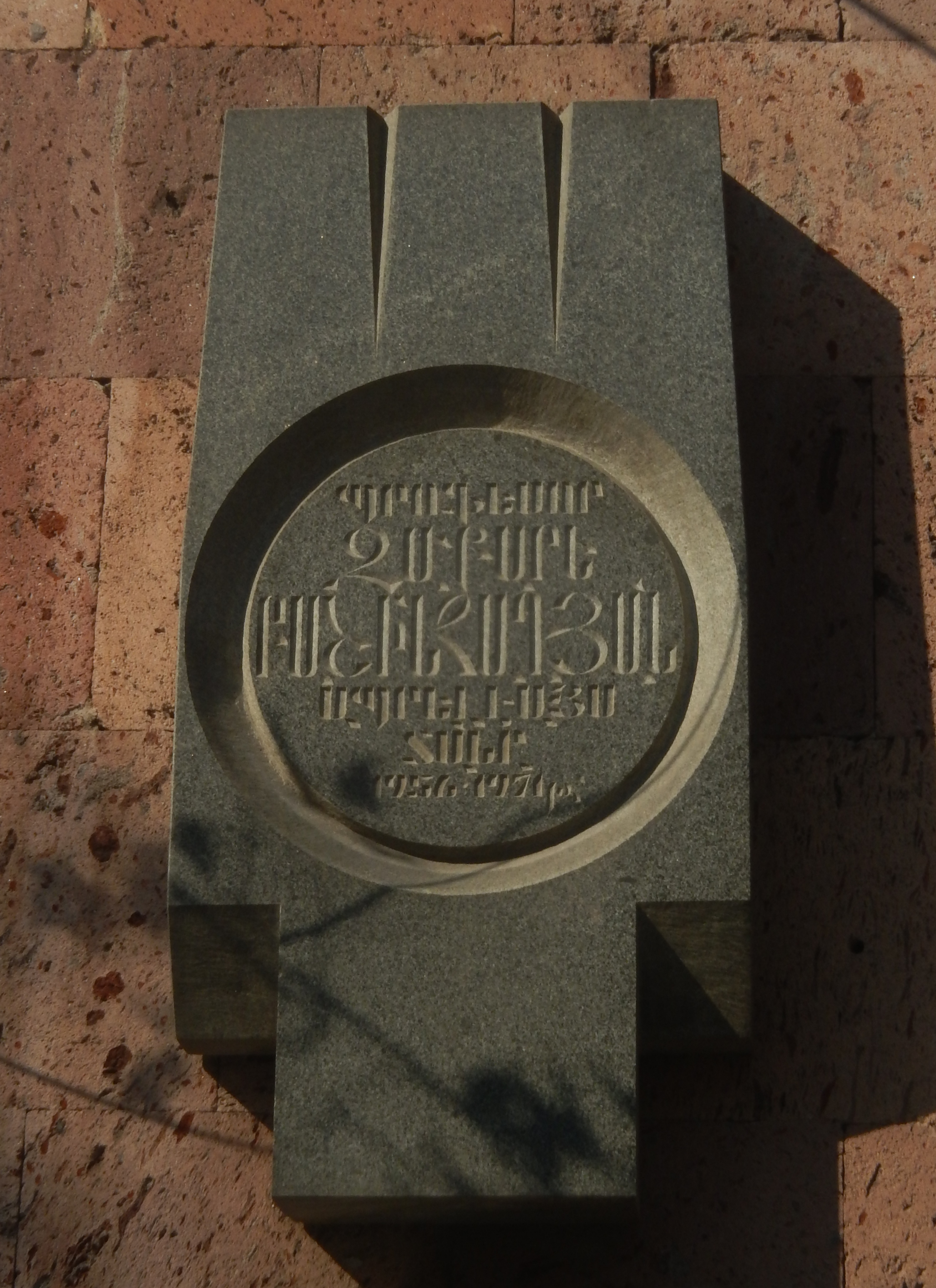 Zakare Bashinjaghyan's plaque